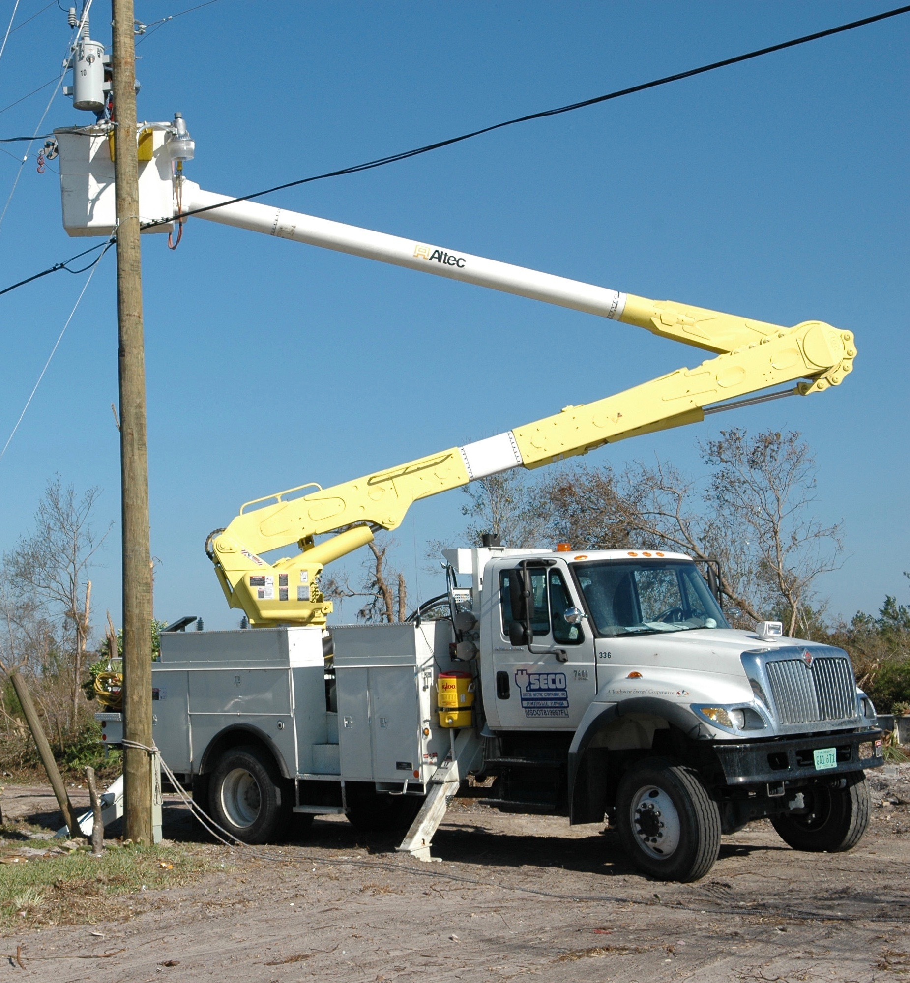 International WorkStar utility boom truck